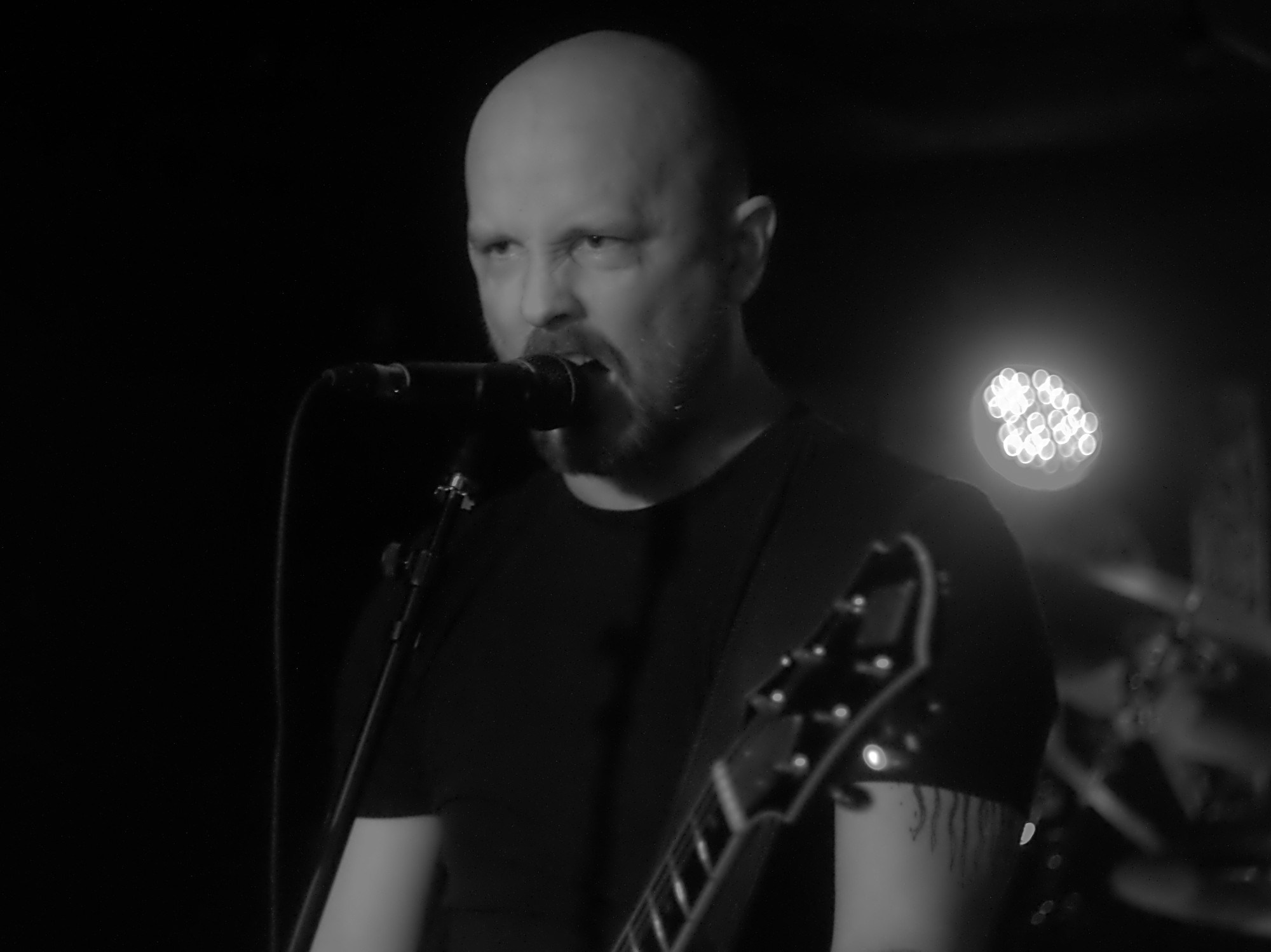 Frode Glesnes of Einherjer at a concert in Toronto.